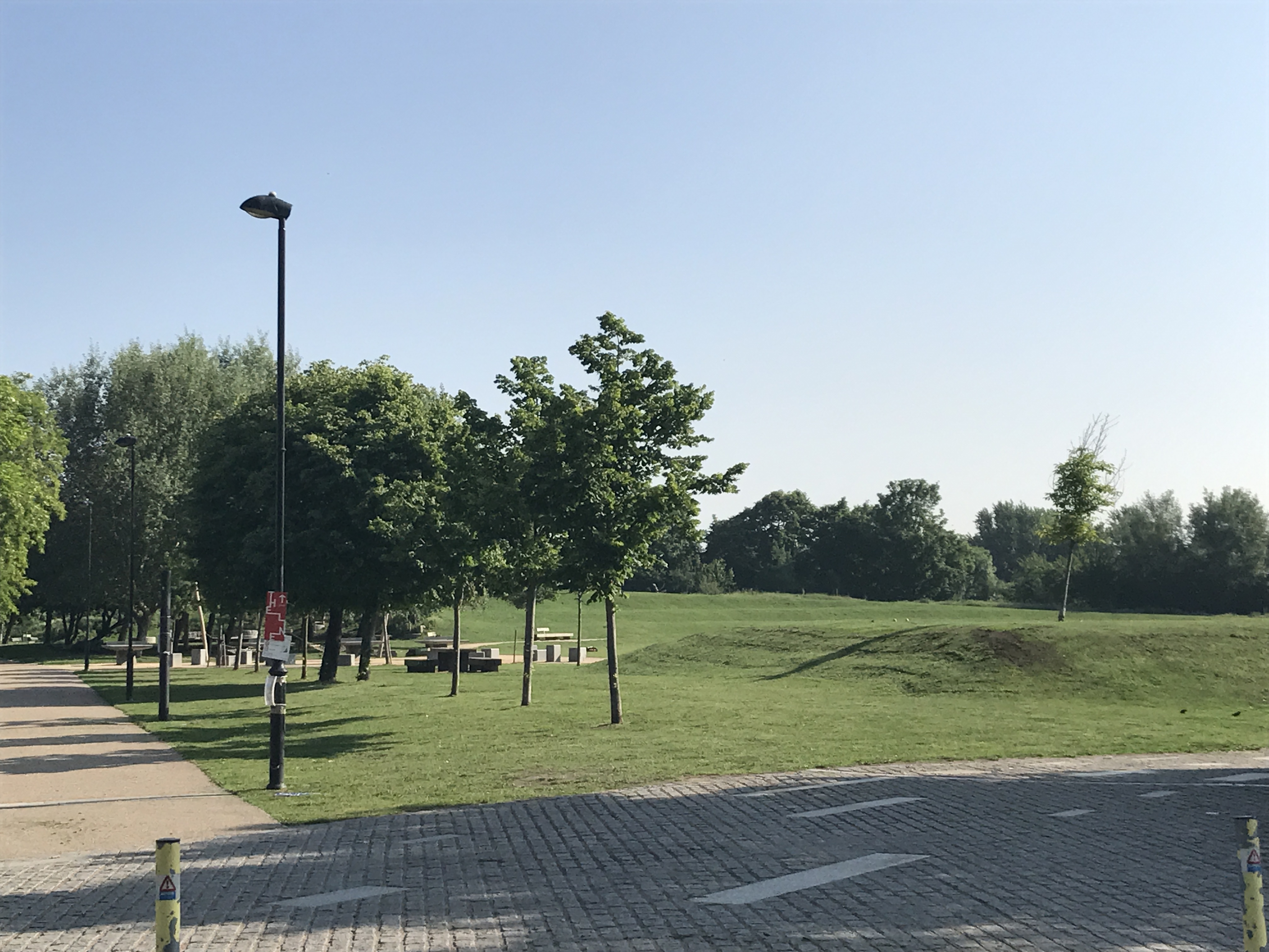 Three Mills Green and Wild Kingdom are open spaces on Three Mills Island near Bromley by Bow adjacent to the development at Sugar House Lane